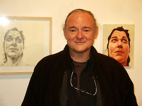 This a photograph taken by Mel Andringa during a performance by English guitarist Adrian Legg at the Legion Arts studio in Cedar Rapids, Iowas. The photo was published on Flickr and has an attribution license which allows use with attribution.